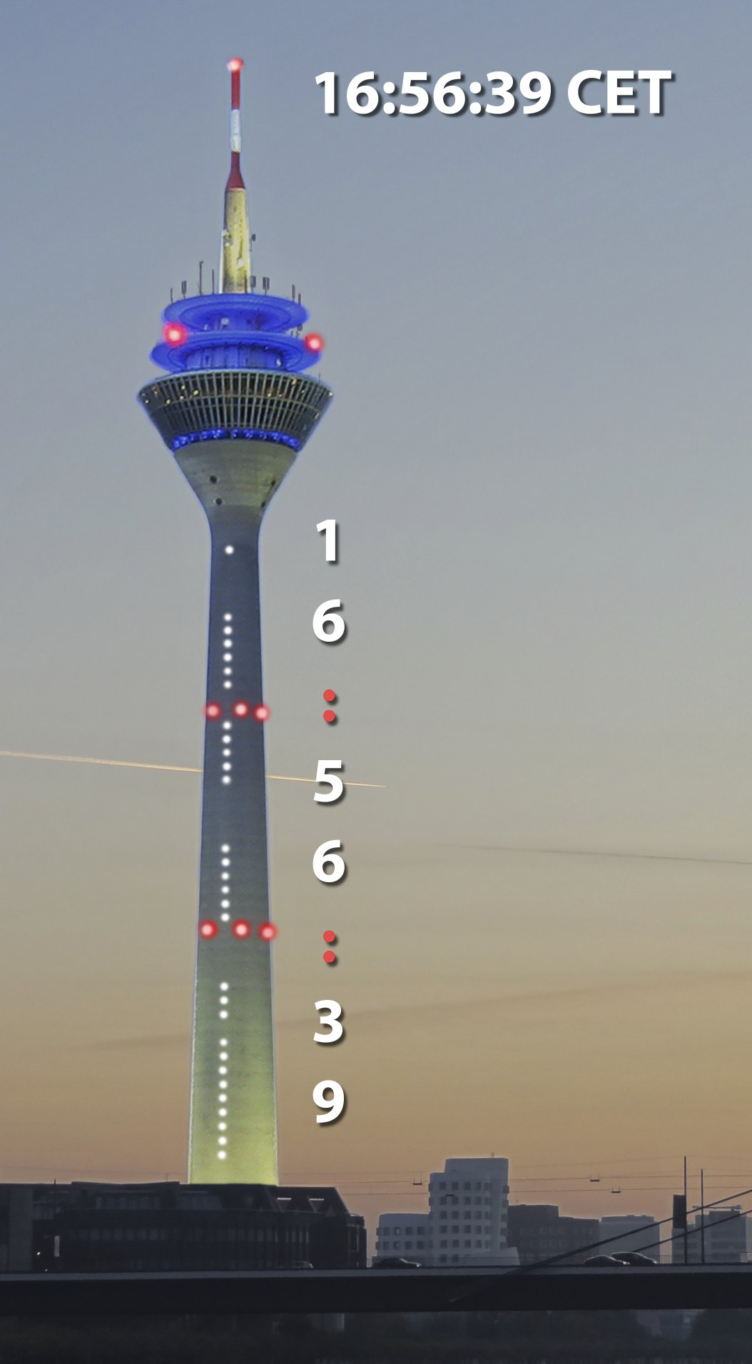 Explanation of the digital clock, Rheinturm in Düsseldorf, Germany: 16:56:39 CET (photomontage own picture and File:Medienhafen-März-09-13 spiegelung zusammengezogen.jpg)